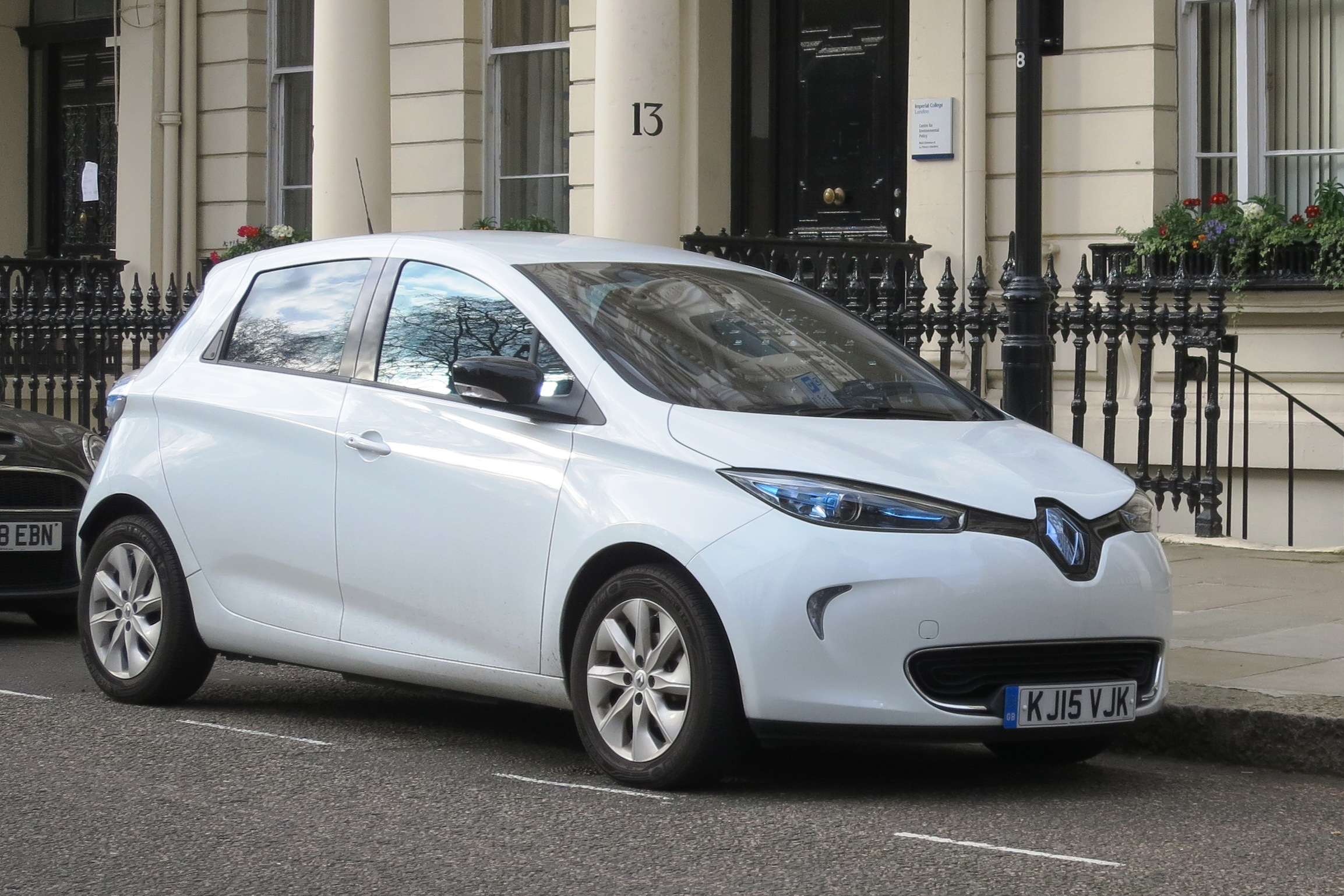 Renault ZOE Imperial College License plate has been changed for anonymisation purposes but year code remains correct.